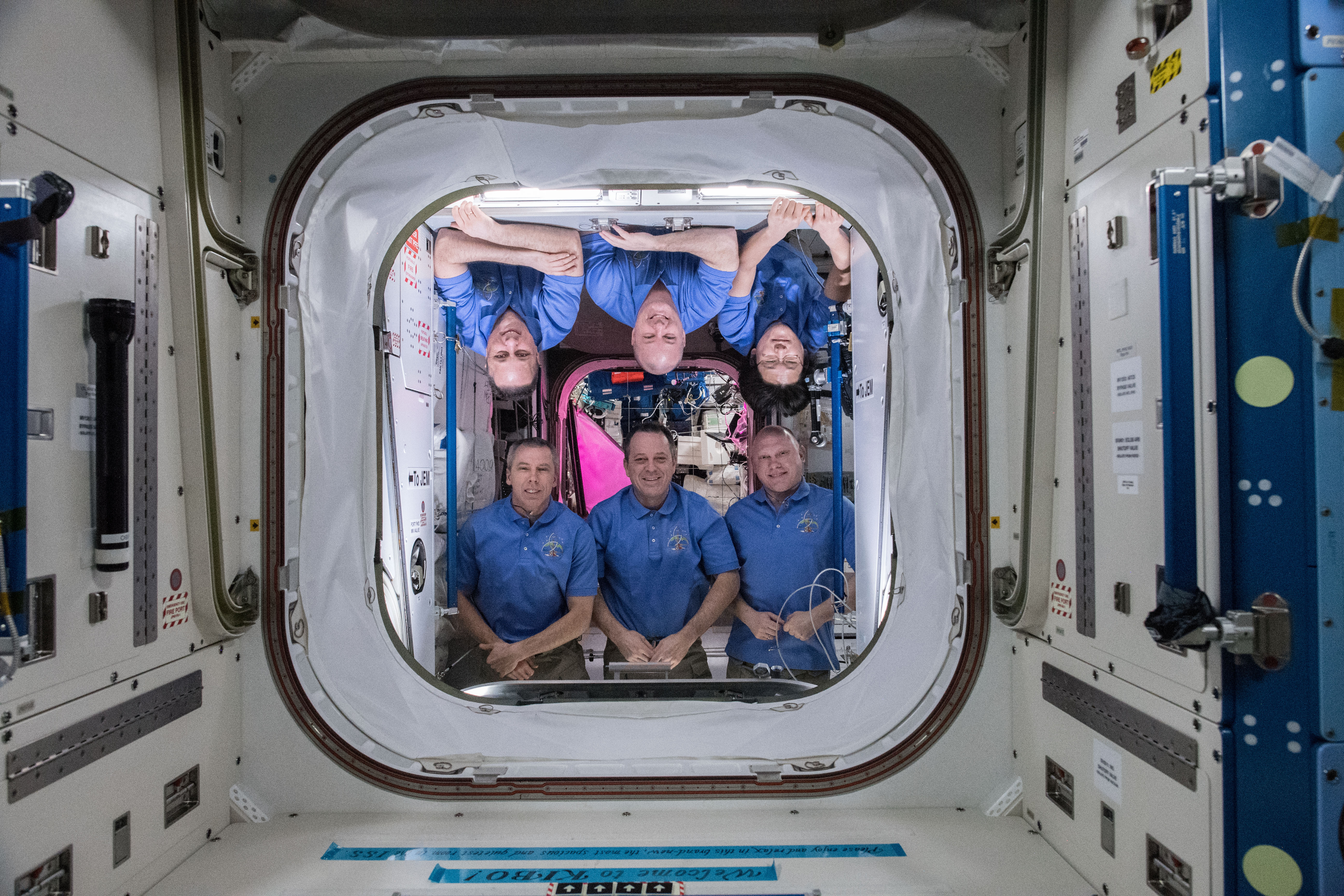 The six-member Expedition 55 crew poses inside the Harmony module which links both the Japanese Kibo and the European Columbus laboratory modules. In the bottom row from left, are Soyuz MS-08 crew members Drew Feustel, Ricky Arnold and Oleg Artemyev. In the top row from left, are Soyuz MS-07 crew members Anton Shkaplerov, Scott Tingle and Norishige Kanai. Feustel, Arnold and Tingle represent NASA. Artemyev and Shkaplerov represent Roscosmos. Kanai represents the Japan Aerospace Exploration Agency.